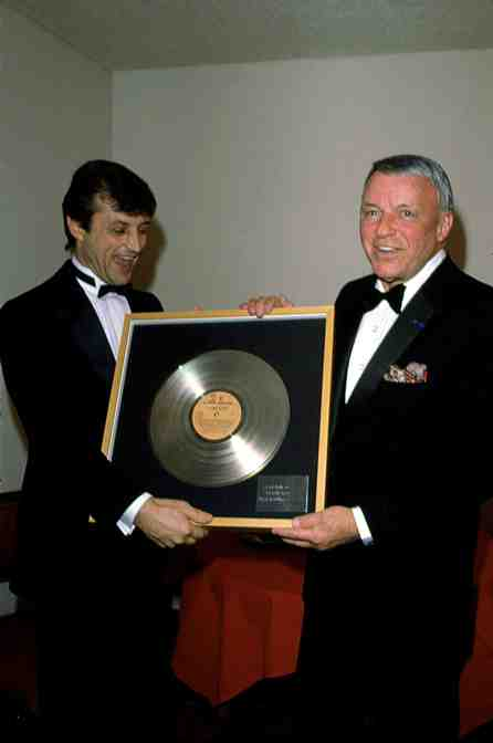 Image transferred from Wikipedia and released in the public domain for respective article on wiki on Italian singer Tony Renis. To be used in translated entry on wiki.